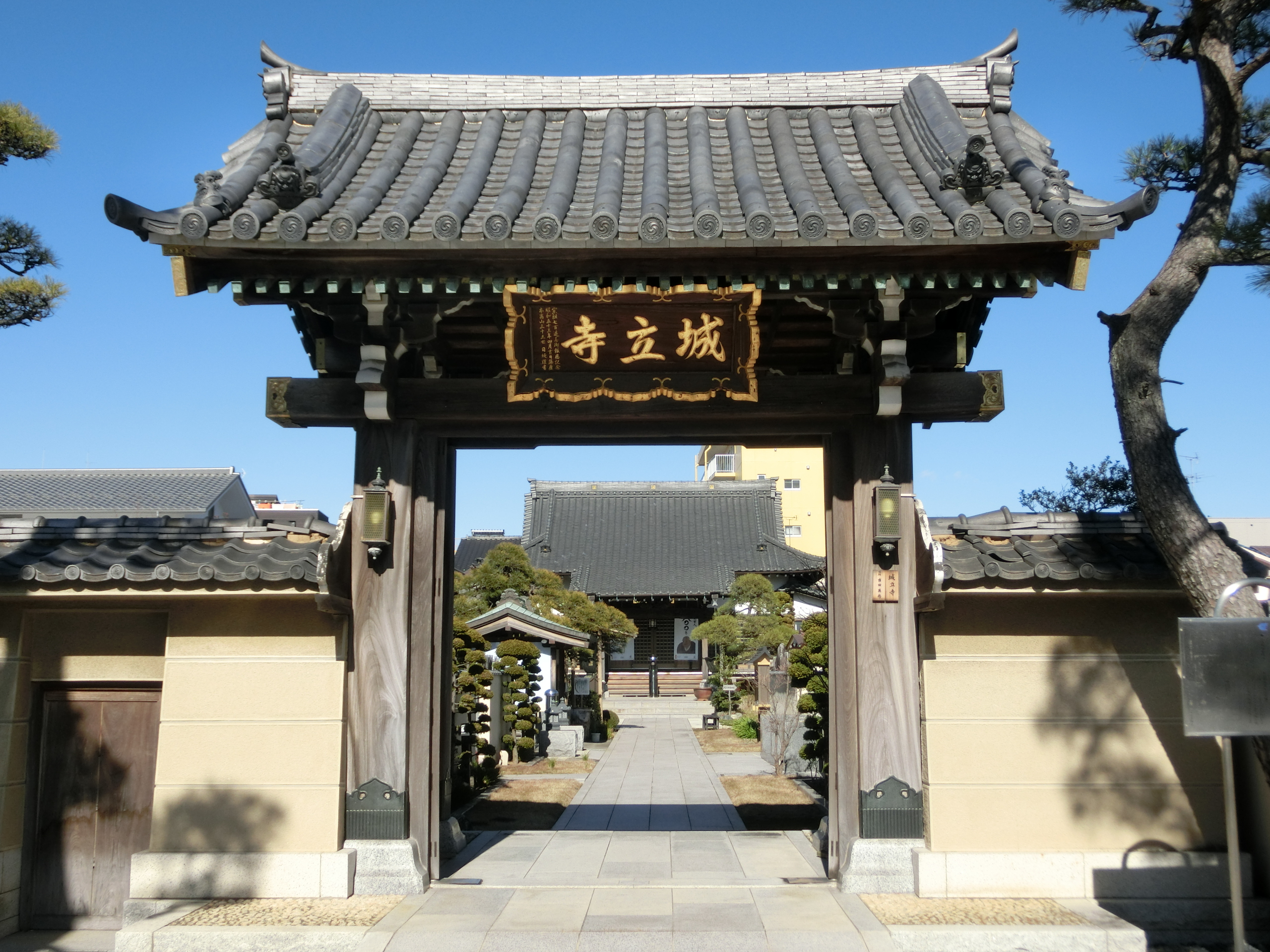 Joryu-ji (Edogawa)